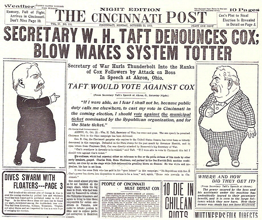 Front page of The Cincinnati Post on Monday, October 23, 1905, featuring War Secretary William Howard Taft's speech attacking Cincinnati political boss George B. Cox.